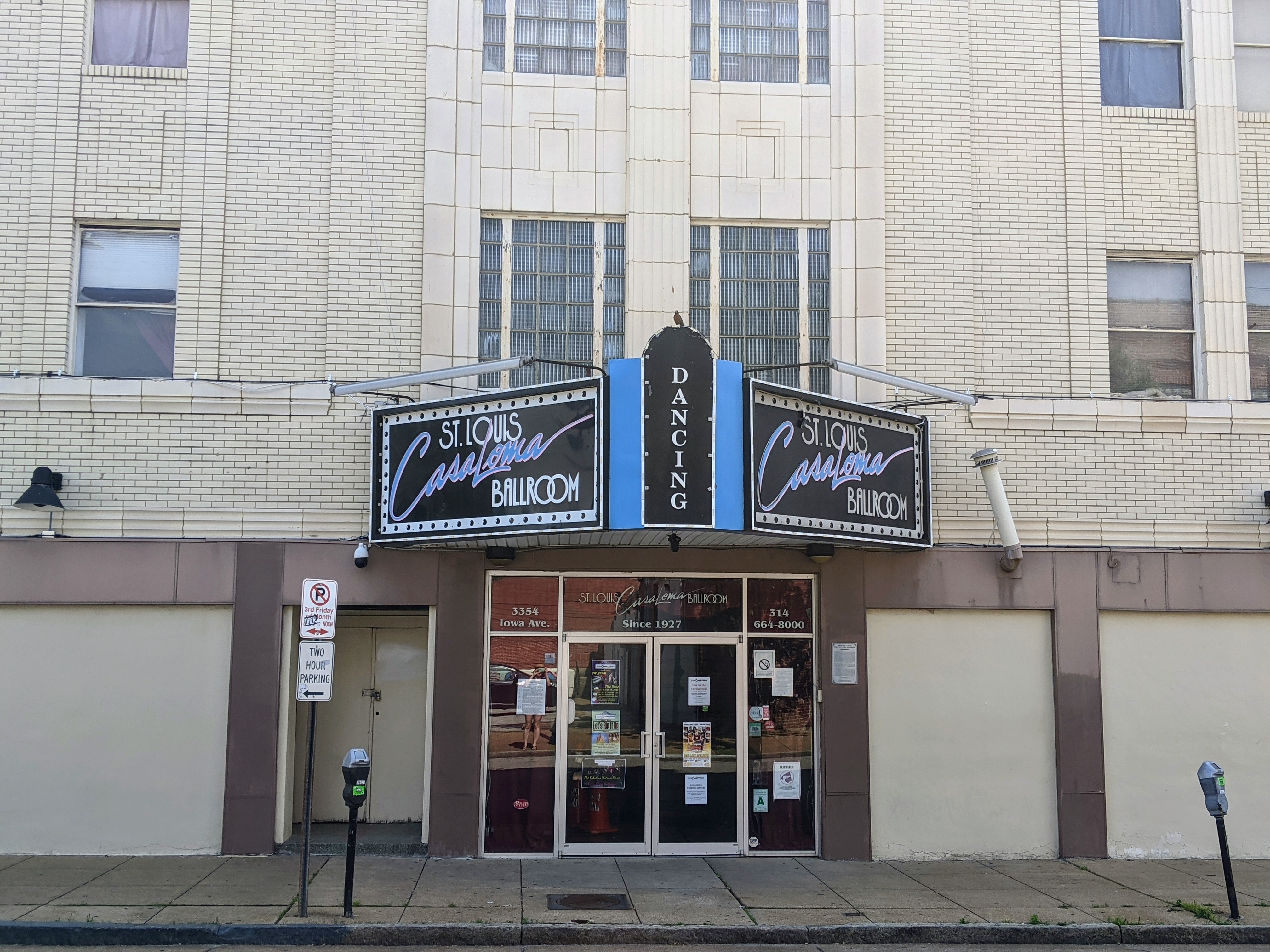 Front of the Casa Loma Ballroom